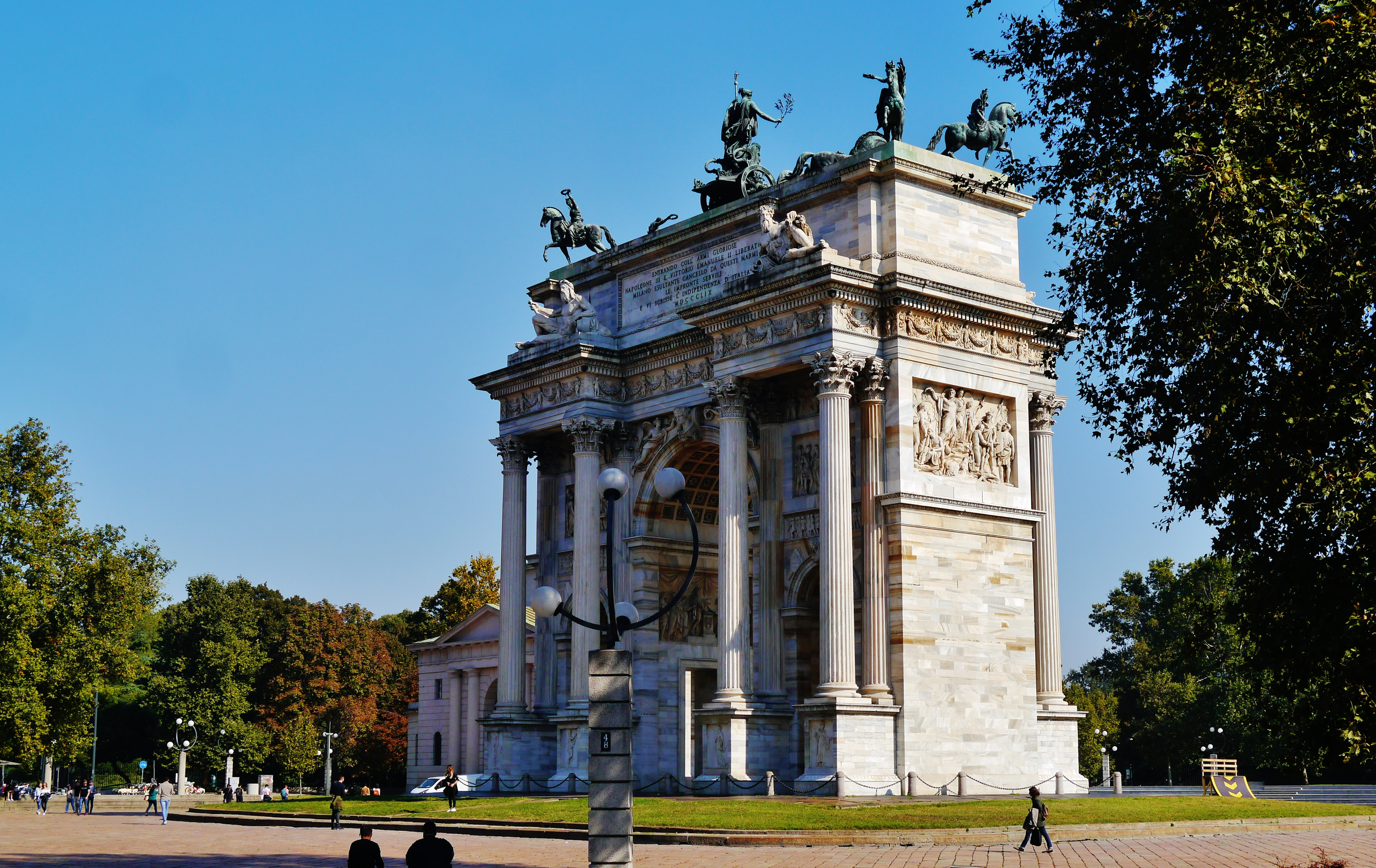 Peace Arch, Milan, Province of Milan, Region of Lombardy, Italy